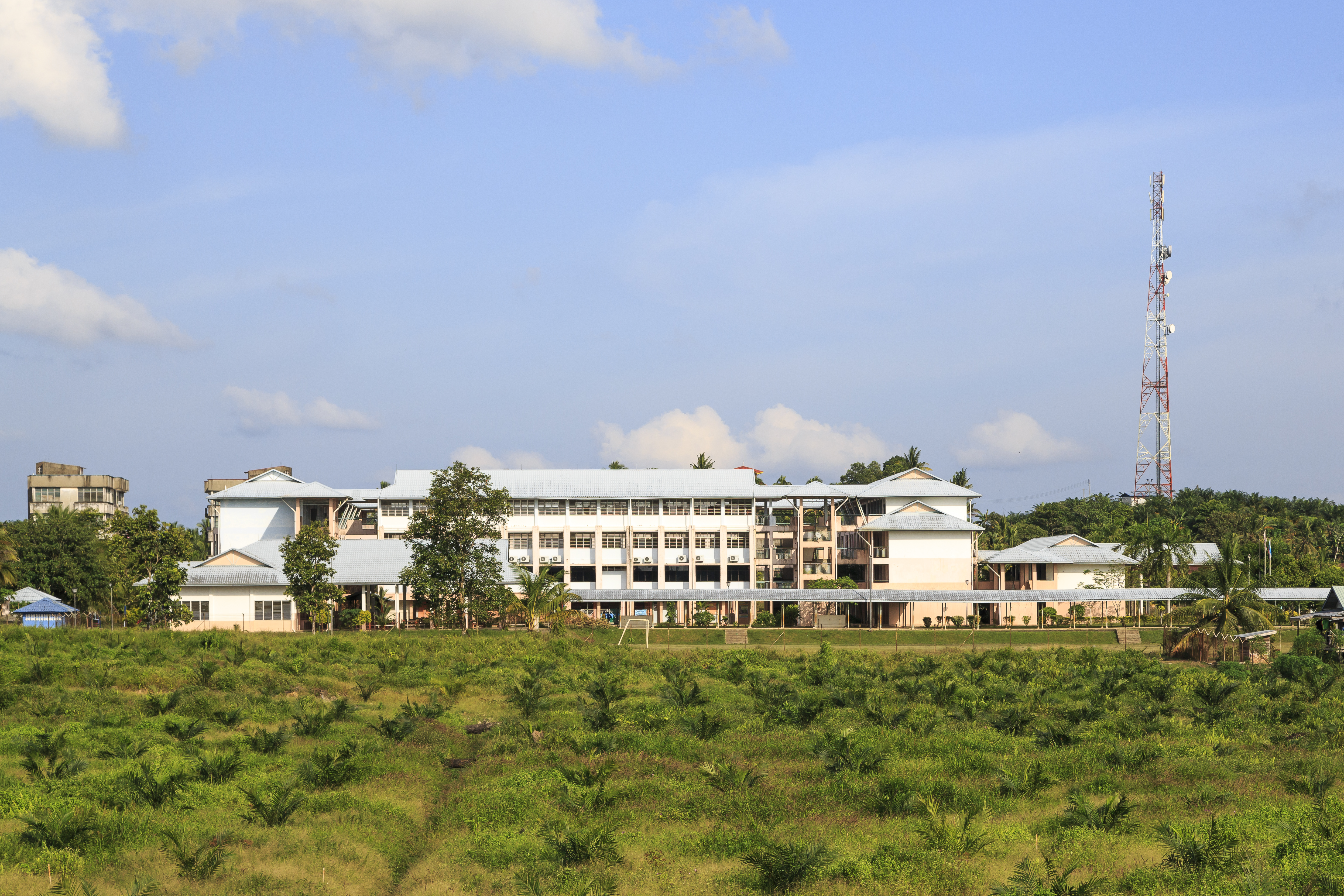 Kota Pamol, Sabah: SK Pamol, the primary school on the compound of PAMOL Estate